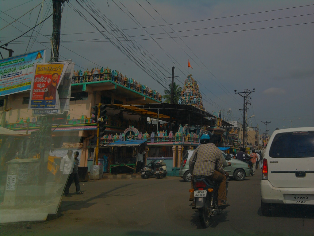 Balkampet Yellamma temple This is a picture of Balkampet Yellamma temple in Hyderabad.